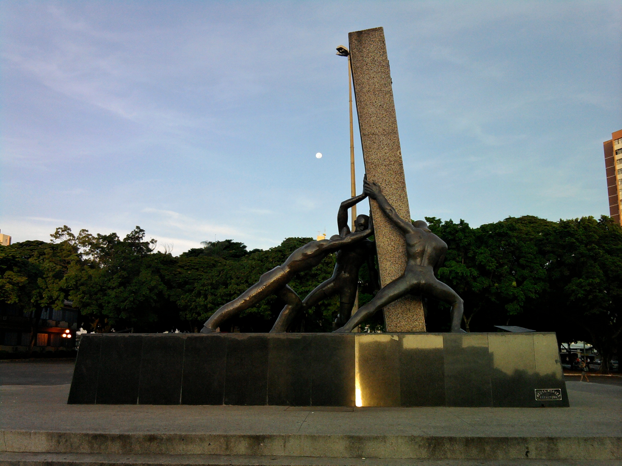 monument to the three races - Goiânia - Goiás - Brazil